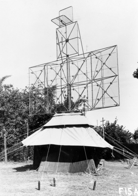 Probably Northern Australia. The full view of the Mark 1A Light Weight Air Warning (LW/AW) Radar. The canvas tent enclosure and flies are in position, surrounding the A frame of the radar. The tent is made at Chullora Railway Workshops, Chullora, NSW. On top of the AW Array is the Interrogator Array and above that the Responser Array.